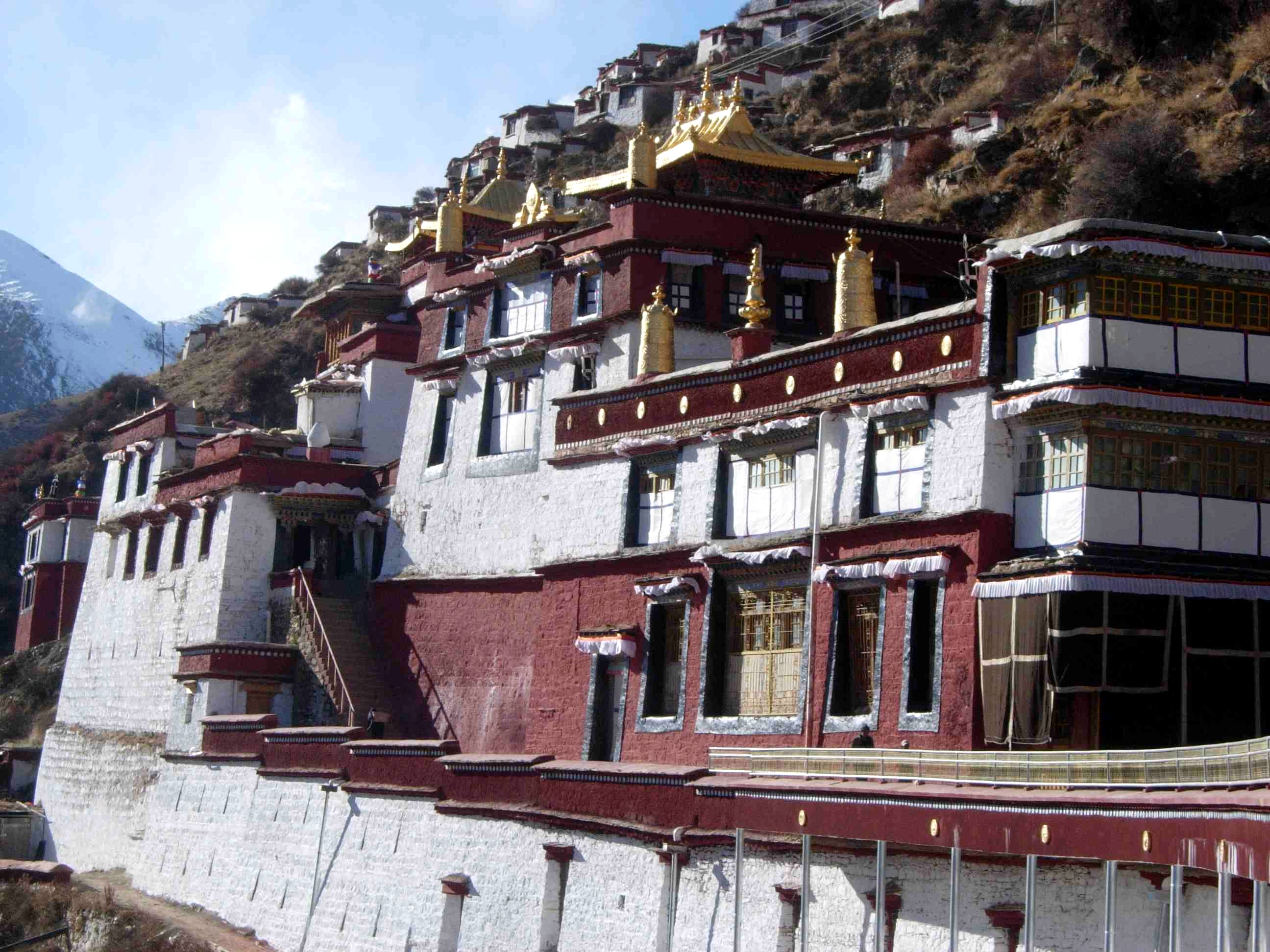 Drigung Monastery Accrding to en.wikipedia: Photographed by Mark Evans in November 2005 using a Nikon Coolpix 5200. Photo is of Drigung monastery, a monastery in Tibet that performs sky burials.